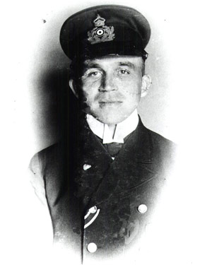 Oberleutnant zur See Bernhard Dinter